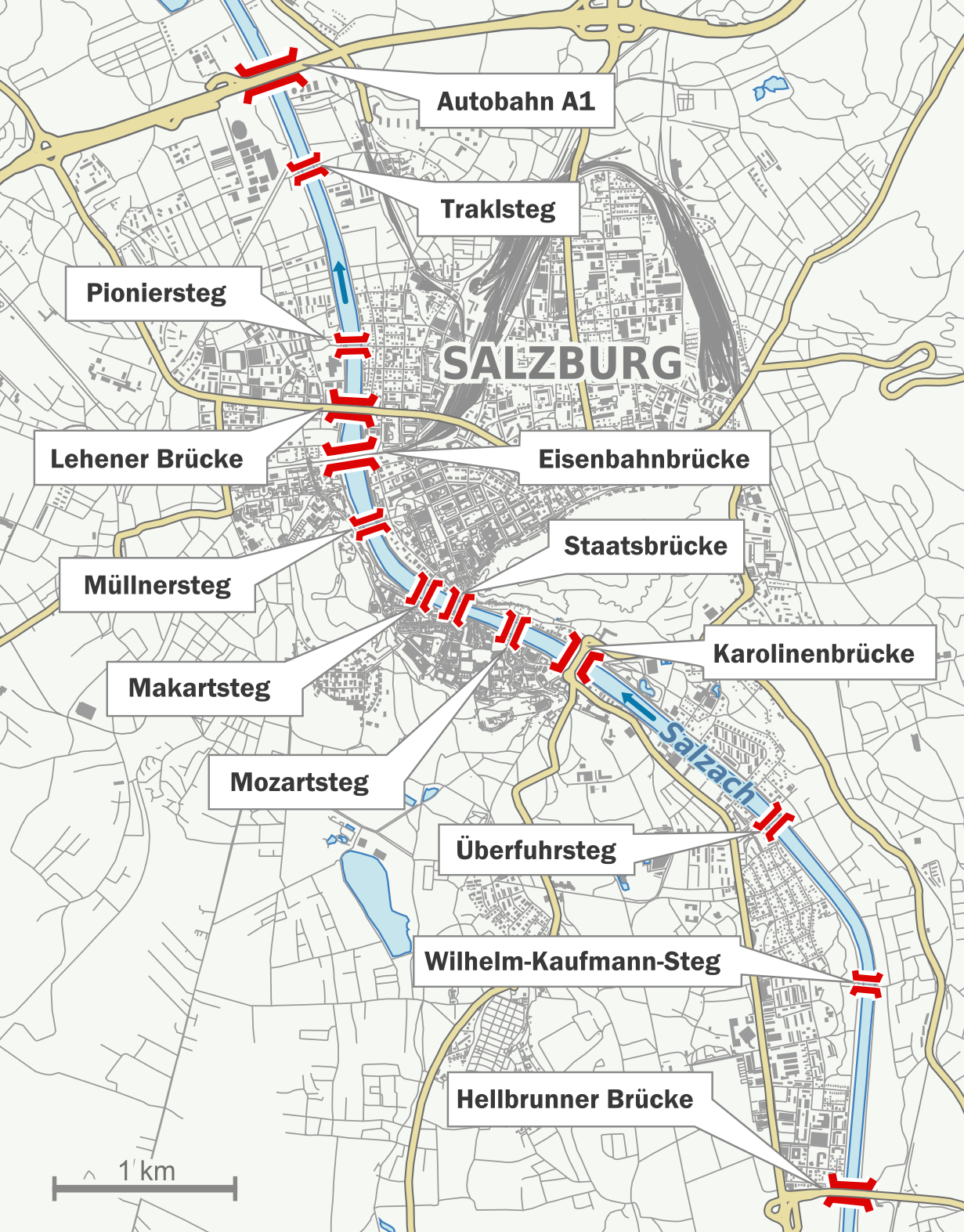 Positions and names of the bridges crossing river Salzach in the city of Salzburg, Austria. Today an alternative name of Karolinenbrücke is Nonntaler Brücke ("Nonntal bridge", named after the quarter Nonntal southwest of the bridge). The river Salzach flows from south to north.